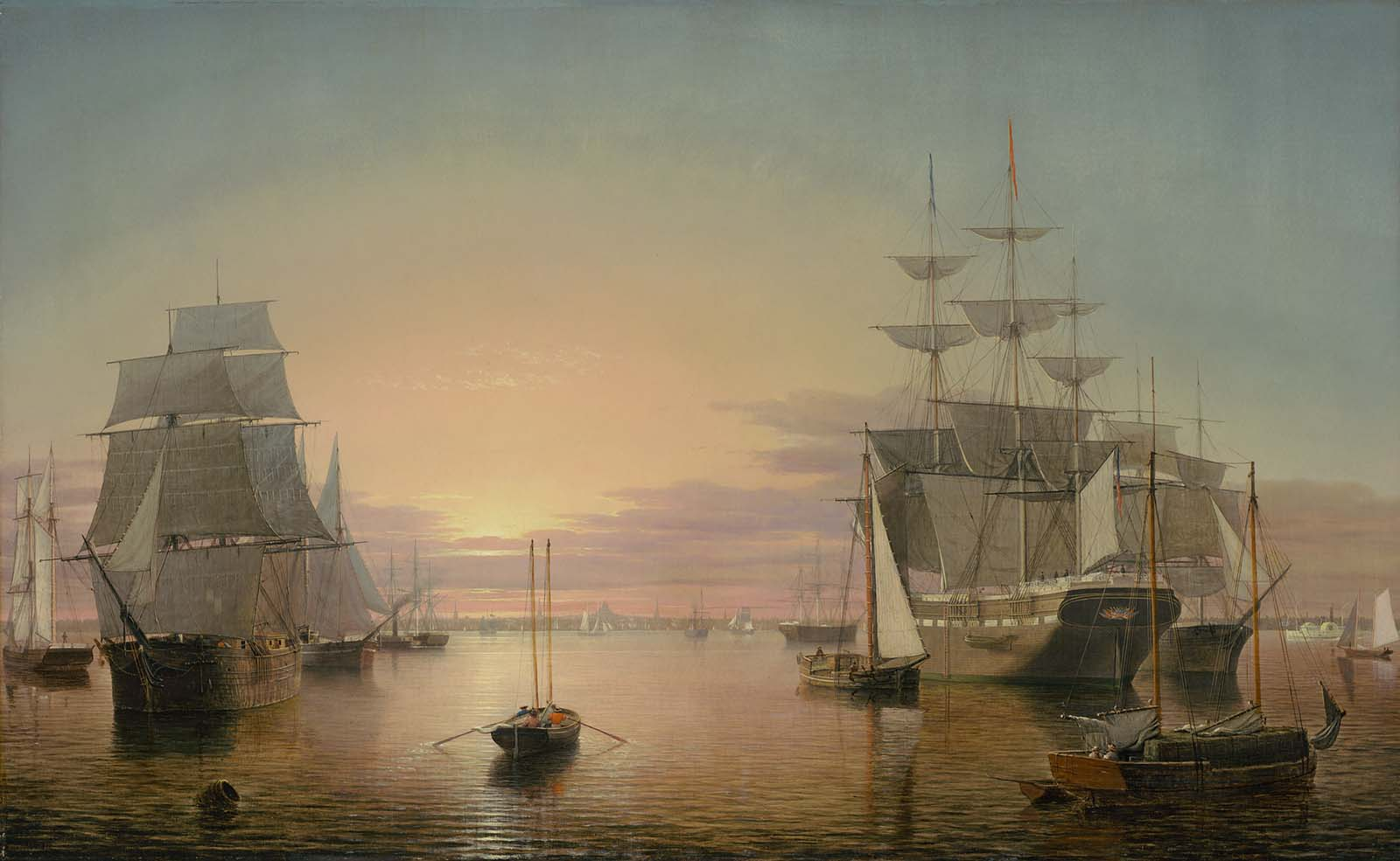 Boston Harbor